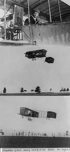 Voisin biplane used by Harry Houdini (1874-03-24 – 1926-10-31) Scenes of Harry Houdini as aviator; close-up in Voisin biplane cockpit (1910?)